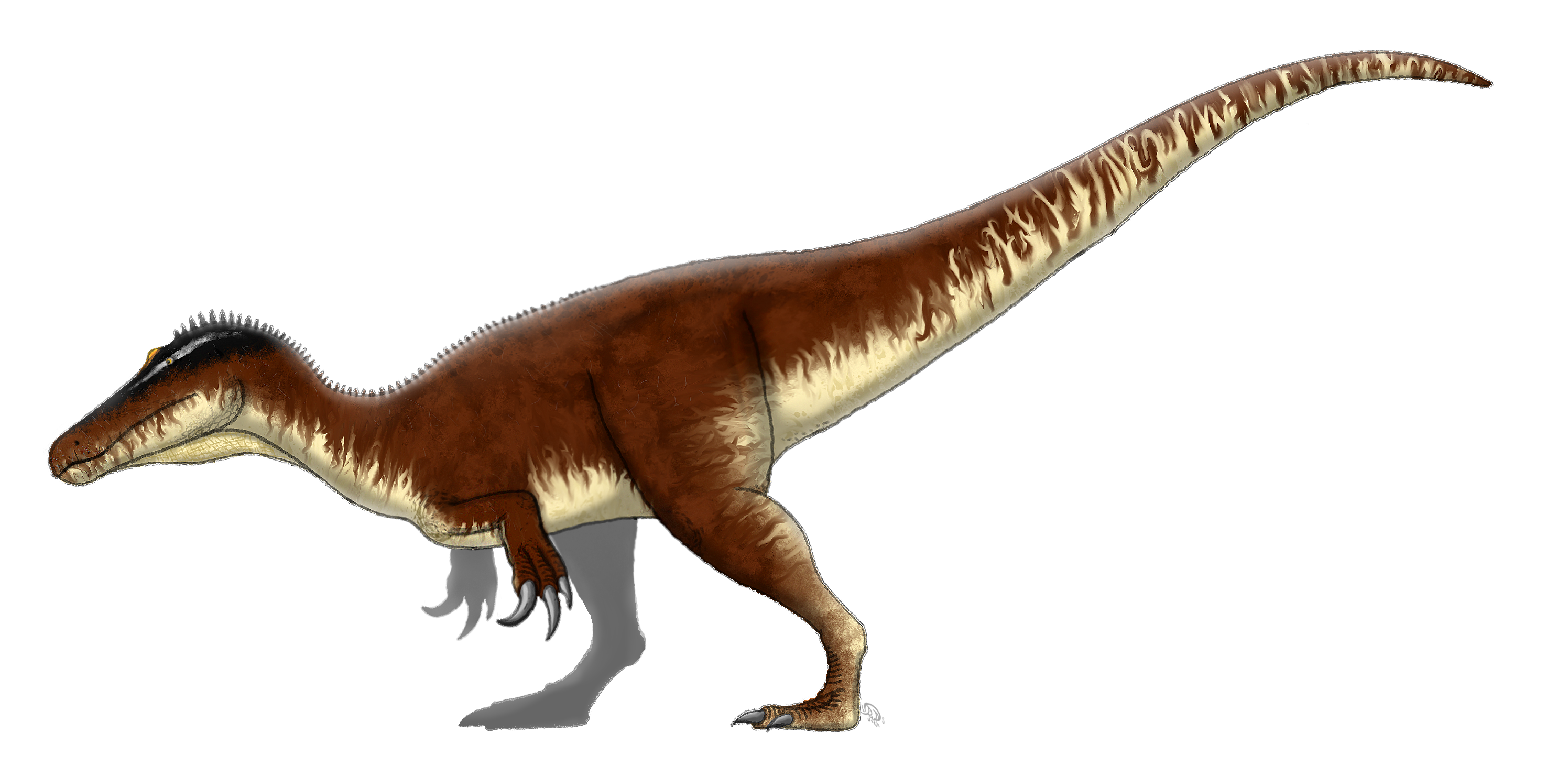 Hypothetical life restoration of the spinosaurid theropod Ostafrikasaurus crassiserratus according to Buffetaut (2012)'s analysis of it as an early spinosaur.[1] Based on Scott Hartman's Baryonyx skeletal[2] and Jaime Headden's Eustreptospondylus (File:Eustreptospondylus_oxoniensis_skeleton.png) skeletal.